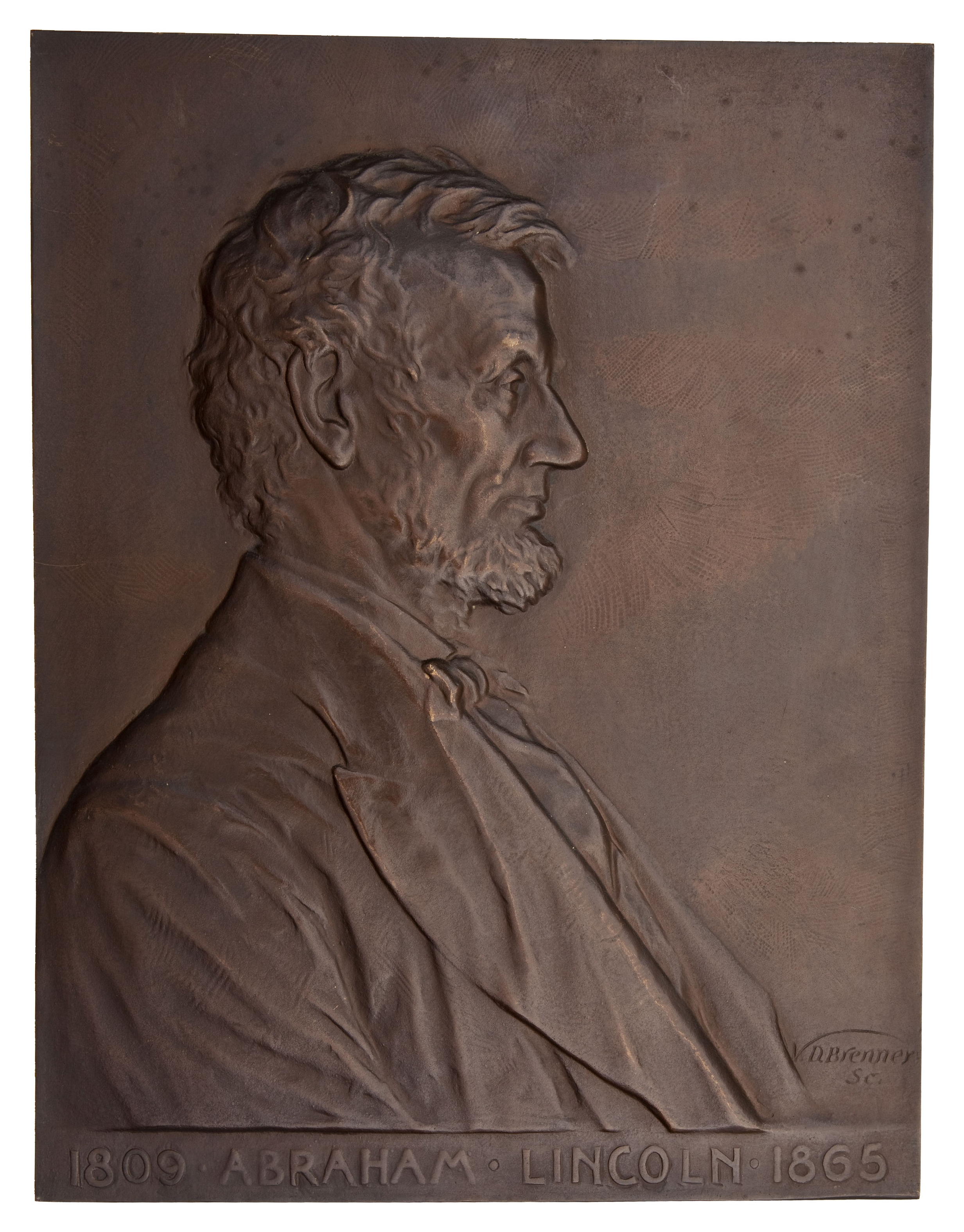 Abraham Lincoln, Bronze Plaque by Victor Brenner (6066-38097)